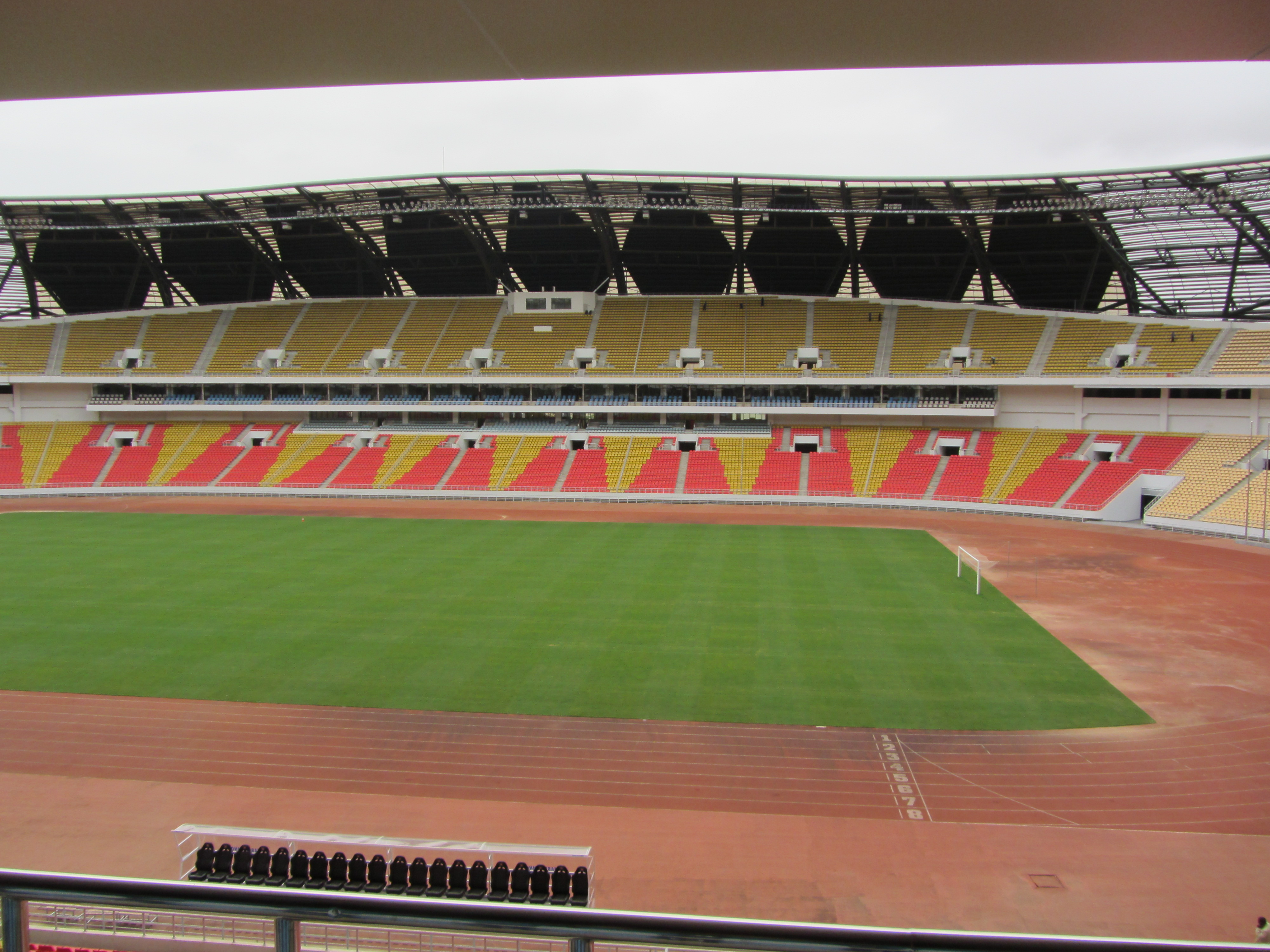 November 11 stadium in Luanda, Angola, with view on the tribunes including the VIP area